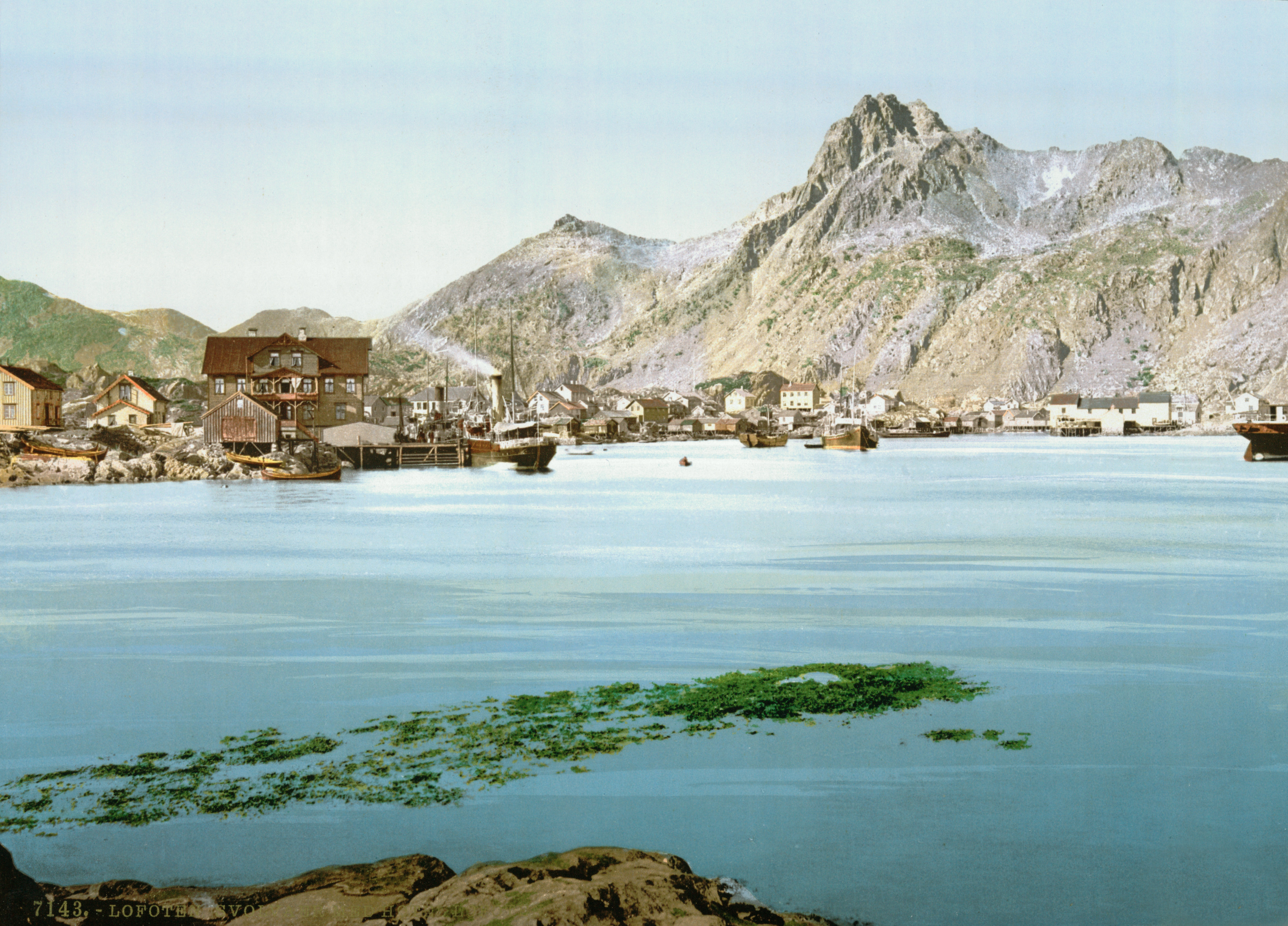 Svolvær with Hotel Lofoten, Lofoten in Norway